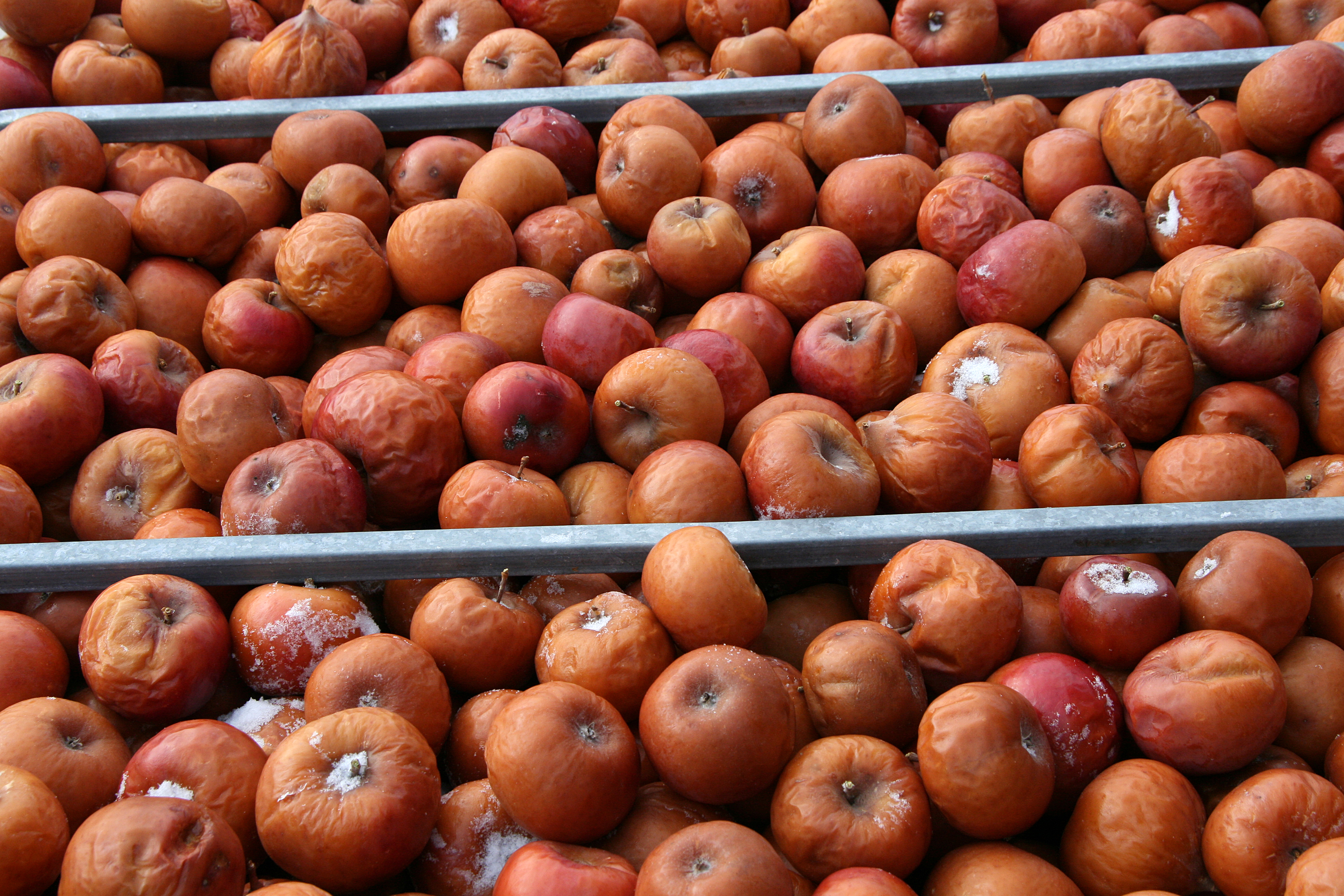 Frozen apples for the making of ice cider.